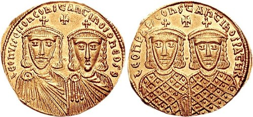 Leo IV the Khazar, with Constantine VI. 775-780. AV Solidus (4.37 g, 6h). Constantinople mint. Struck 776-778. Crowned and draped facing busts of Leo IV, wearing short beard, and Constantine VI, beardless; pellet between; cross above; Q at end of inscription / Crowned facing busts of Leo III and Constantine V, each wearing short beard and loros; pellet between; cross above. DOC 1b; SB 1583. Near EF.